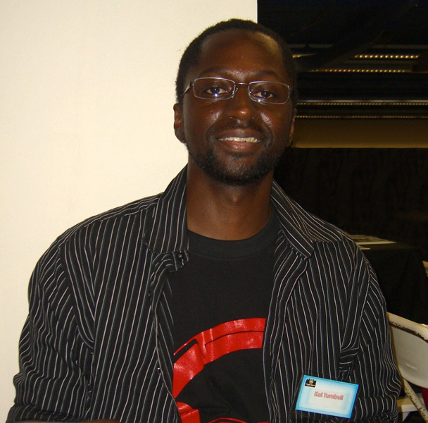 Comics creator Koi Turnbull at the Big Apple Convention in Manhattan, May 21, 2011. Photographed by Luigi Novi. This photo is not in the public domain. It may, however, be used, modified and published for any purpose, free of charge, only if the photographer is properly credited, either by linking the photograph to this page, or with an easily visible credit to the photographer placed near the photo in each instance in which it is used. (See licensing information below.) Publication of this photo without this proper attribution constitutes copyright infringement. If you have any questions, you can contact me on my Wikipedia Talk Page.